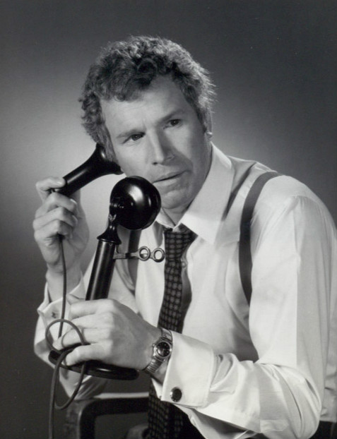 Photo of Wayne Rogers as Jake Axminster from the television program City of Angels.